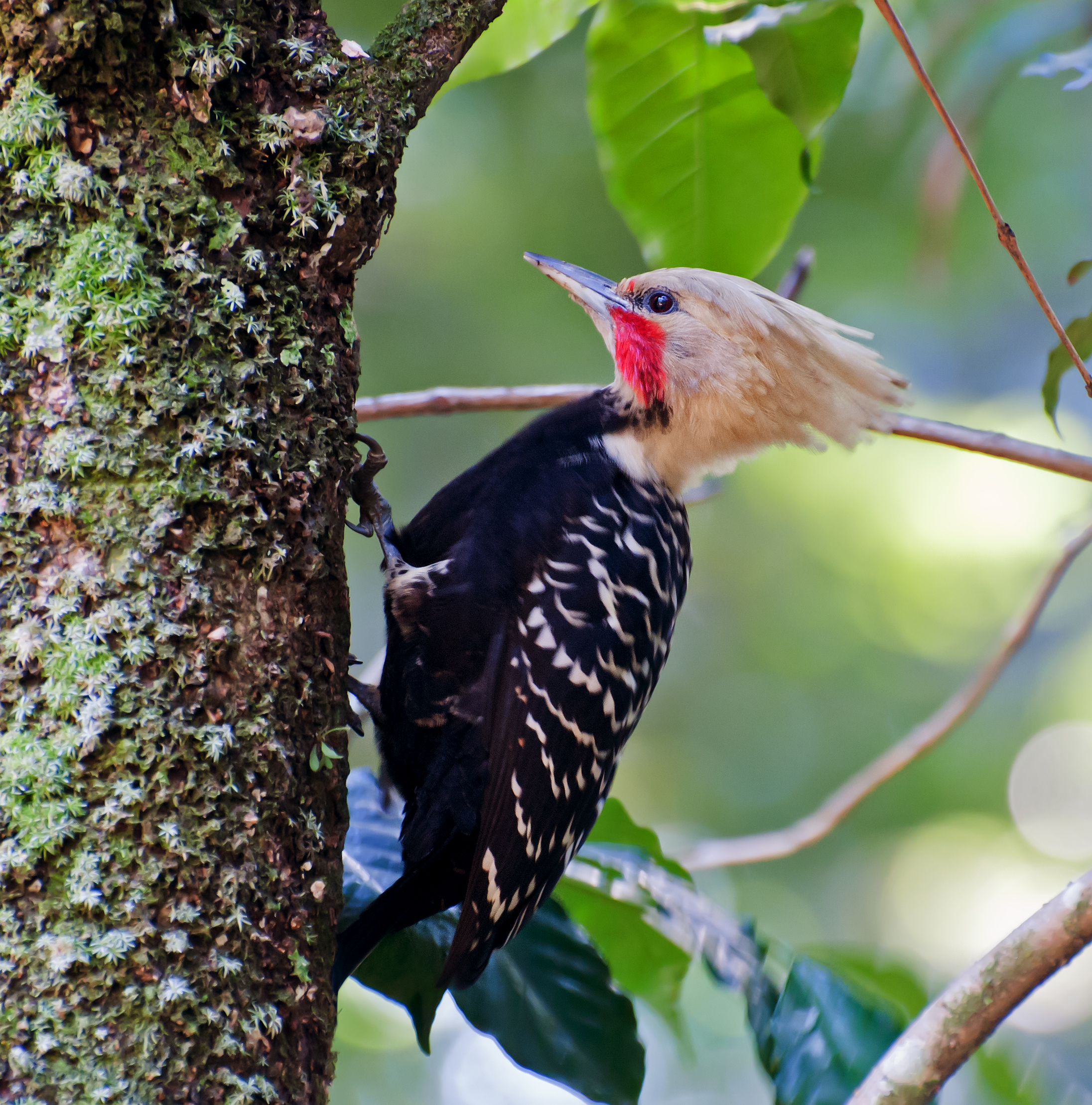 A male Blond-crested Woodpecker in Horto Florestal, São Paulo, Brazil.